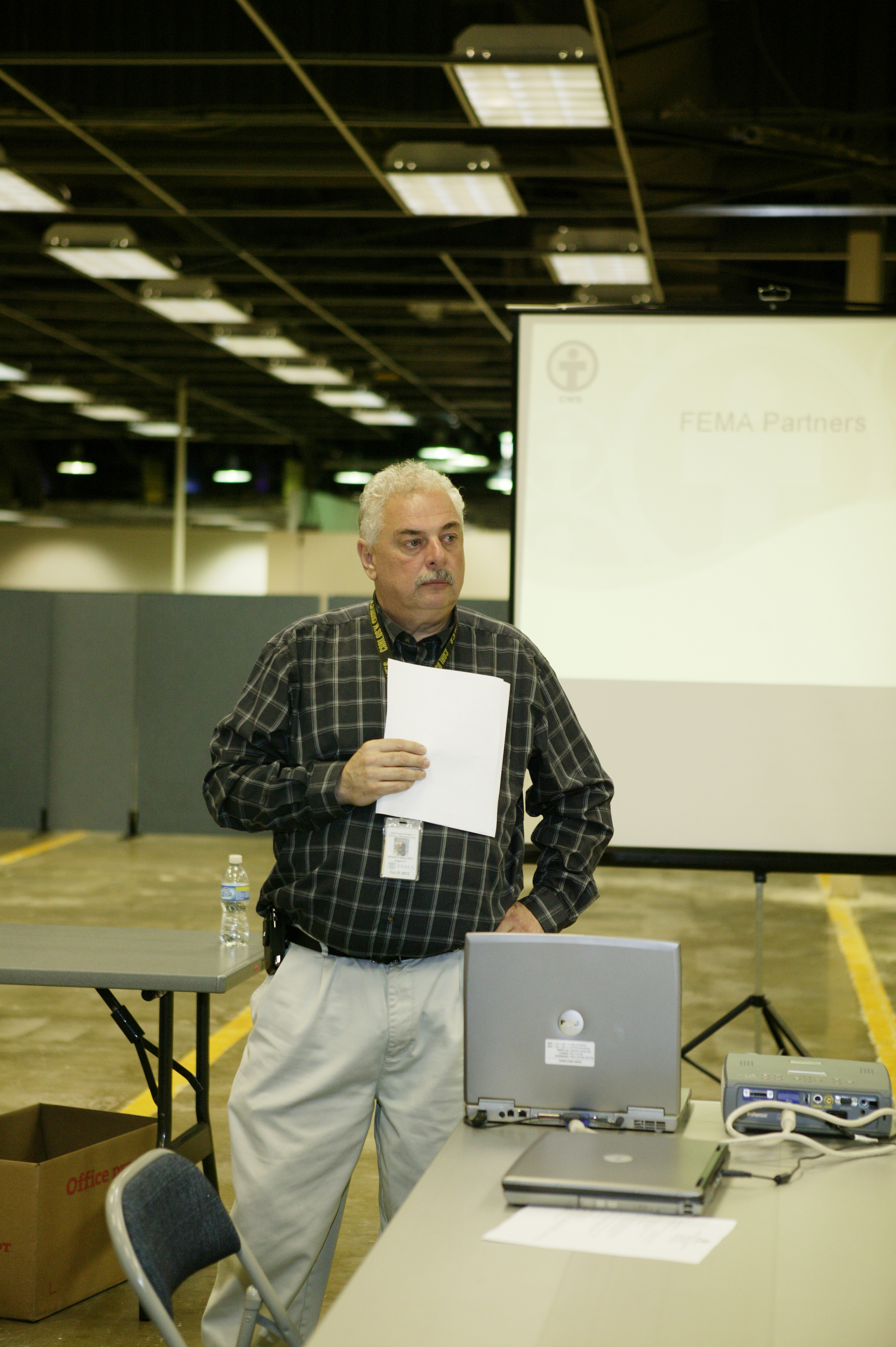 Atlanta, GA, November 13, 2009 -- FEMA hosts the Georgia Recovery Tools and Training program in connection with Church World Service, a FEMA partner organization. Ken Skalitzky of FEMA presents to volunteer organizations in order to prepare them to take over the long term recovery of Georgia communities affected by the severe storms and floods of September 2009. David Fine/FEMA